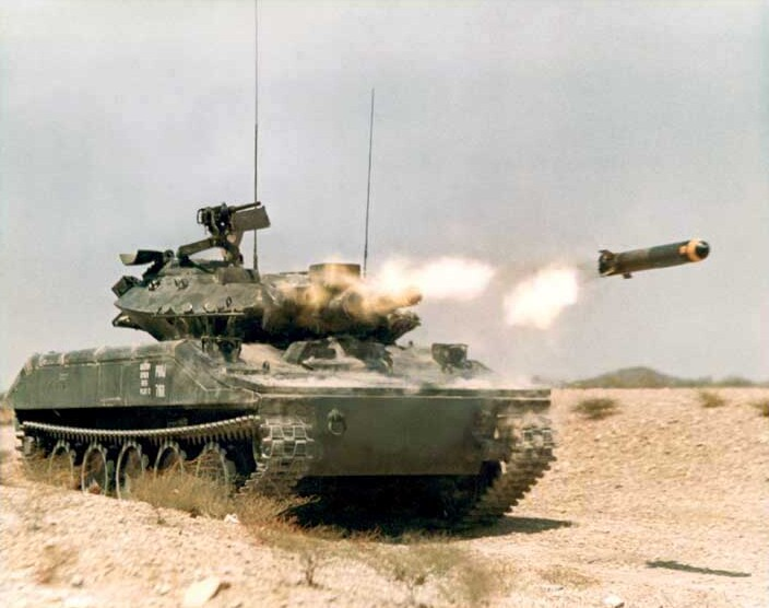 MGM-51 Shillelagh Anti-tank miisile fired from M551 Sheridan light tank. Likely an XM551 at White Sands Missile Range, New Mexico or Yuma Proving Ground, Arizona.